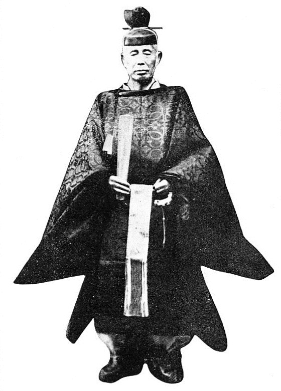 Giichi Tanaka wearing Sokutai